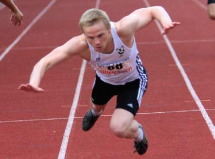 Trausti Stefánsson flying at the finish line